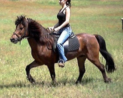 An Icelandic Horse.